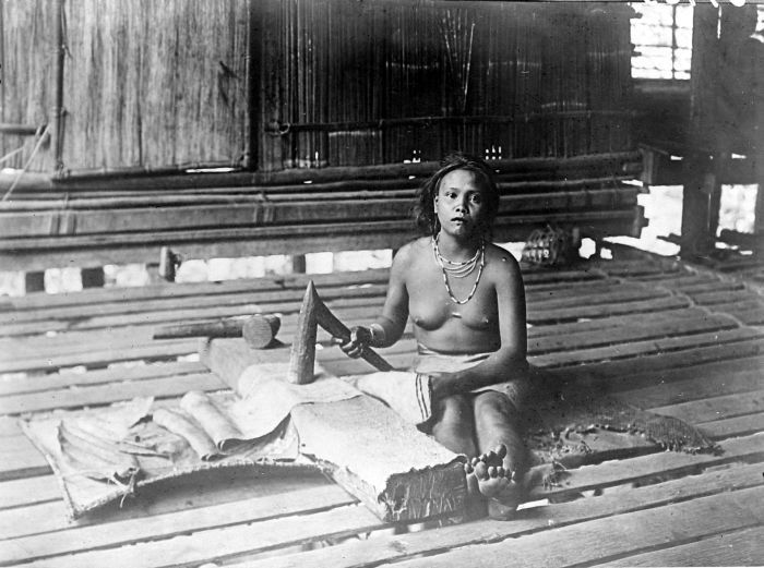 A Dayak woman tapping tree bark